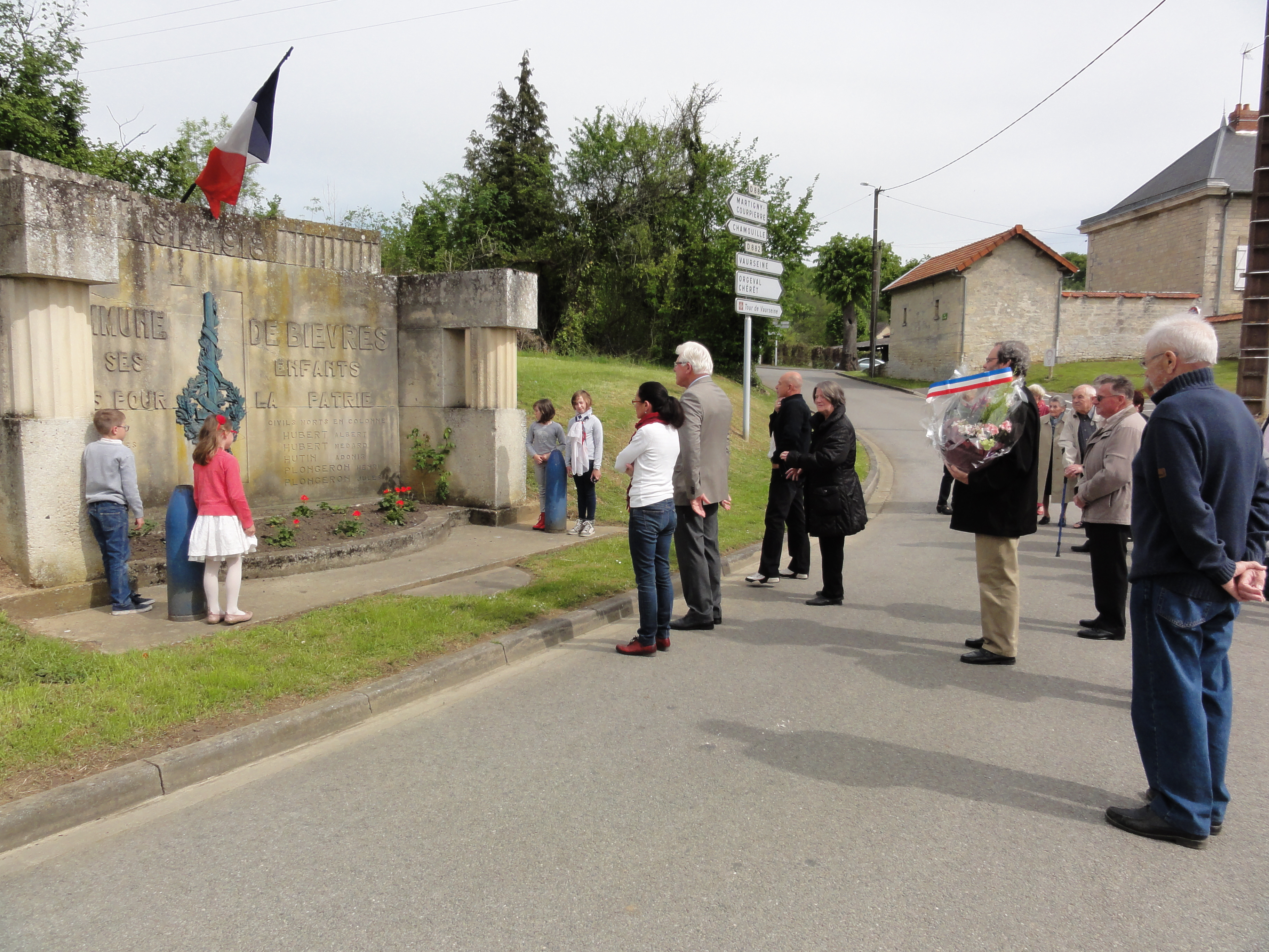 Bièvres (Aisne) Cérémonie commémorative 70e, 8 mai 2015. Receuillement devant le monument